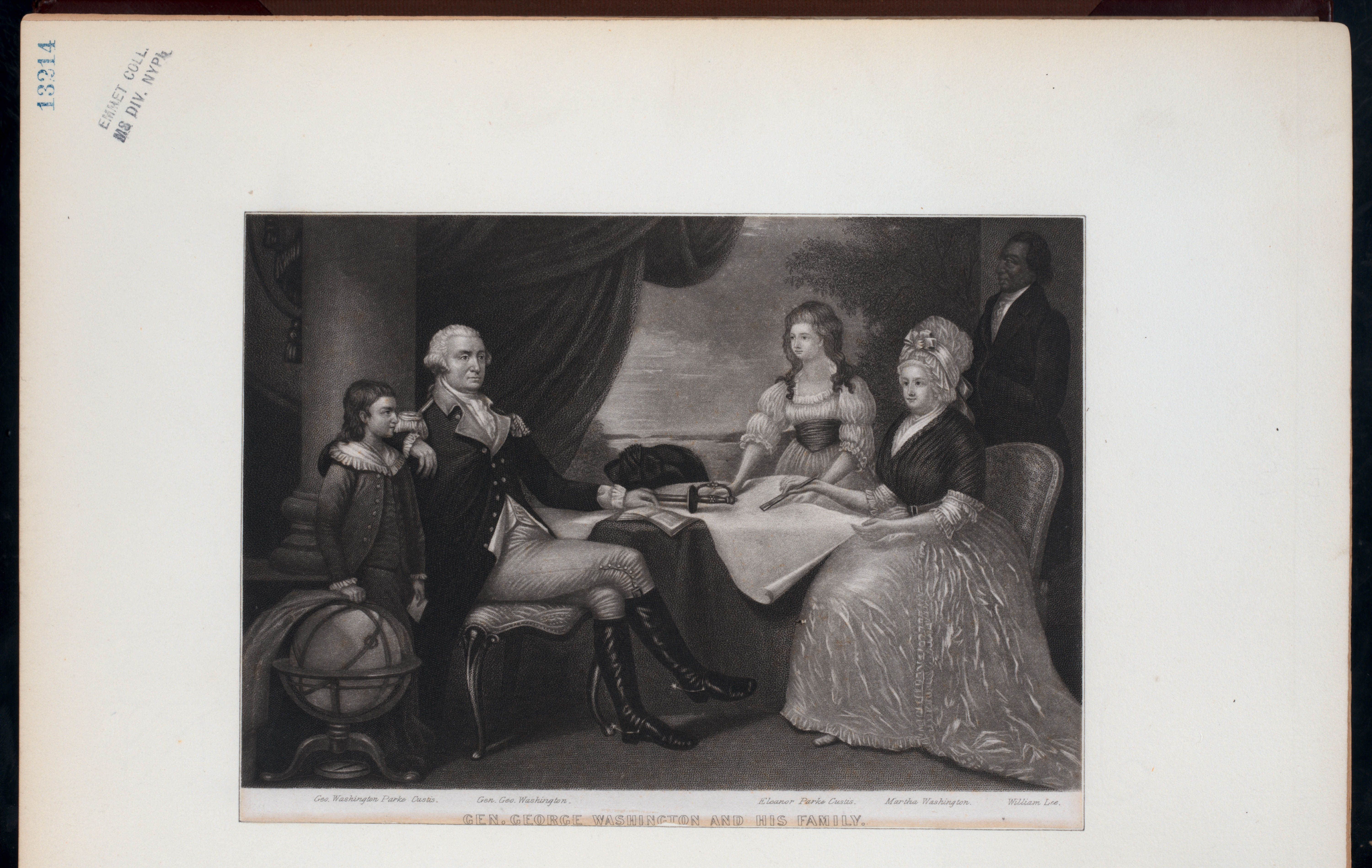 EM13214